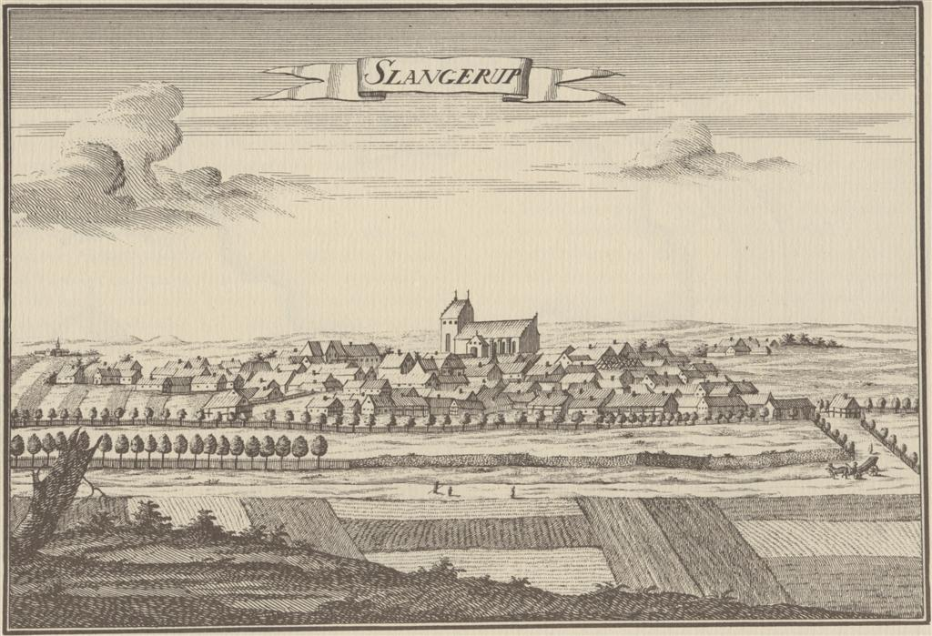 View of Slangerup, Denmark